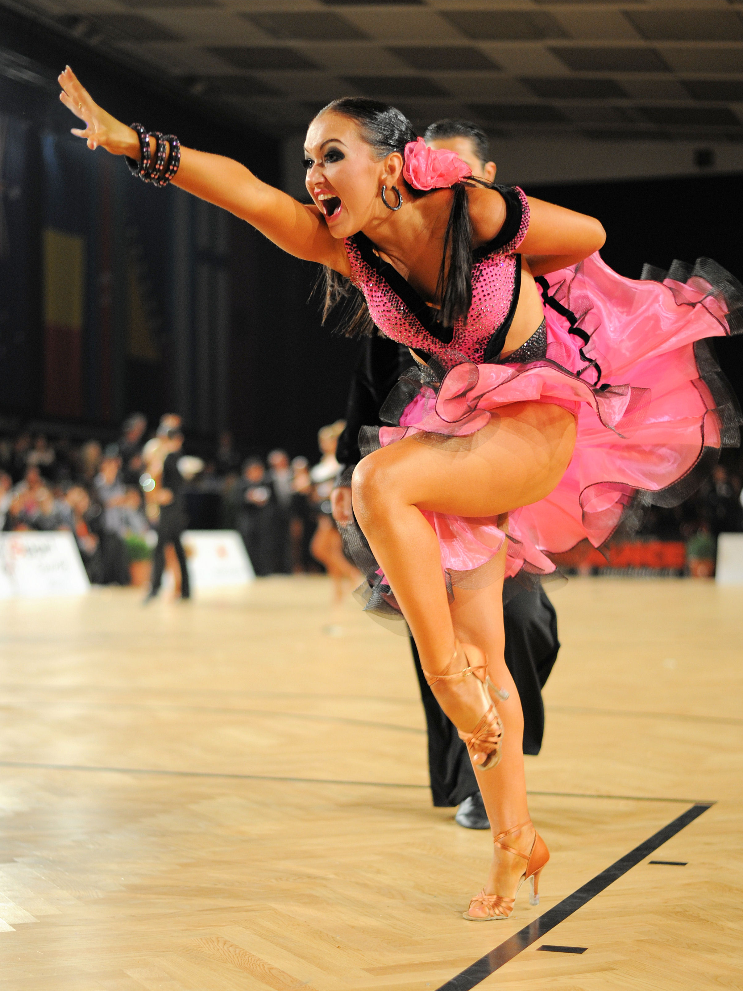 Austrian Open Championships Vienna, 2012 WDSF World Dancesport Championships Latin 16.-18. November 2012 Cha-Cha-Cha performed by Elena Salikhova, France